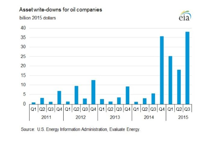 Asset write downs for oil companies 2015.